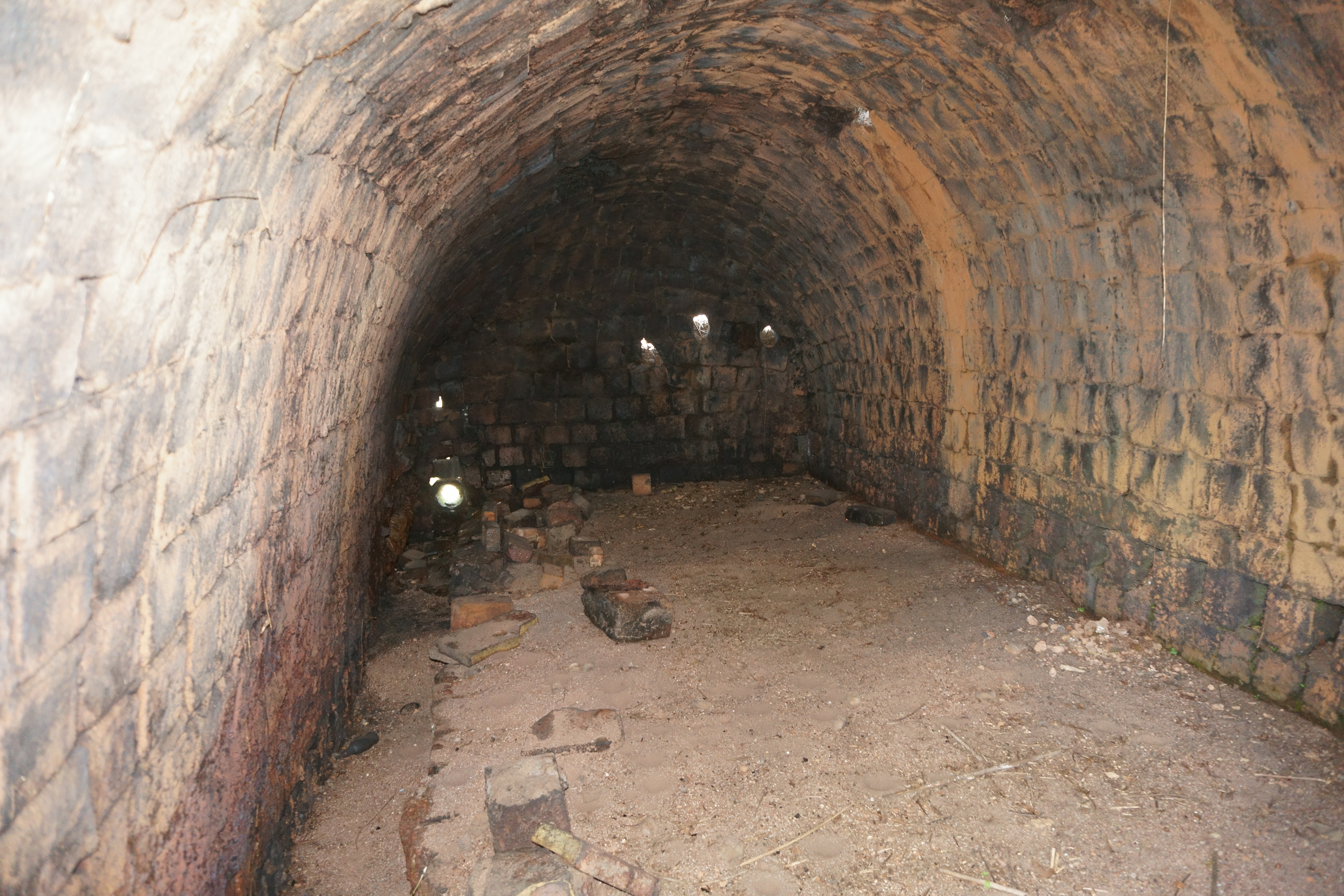 The fourth (highest one of four) chamber of Old Yokomakura jar climbing kiln, in Yokomakura, Ouchi, Karatsu city, Saga prefecture.